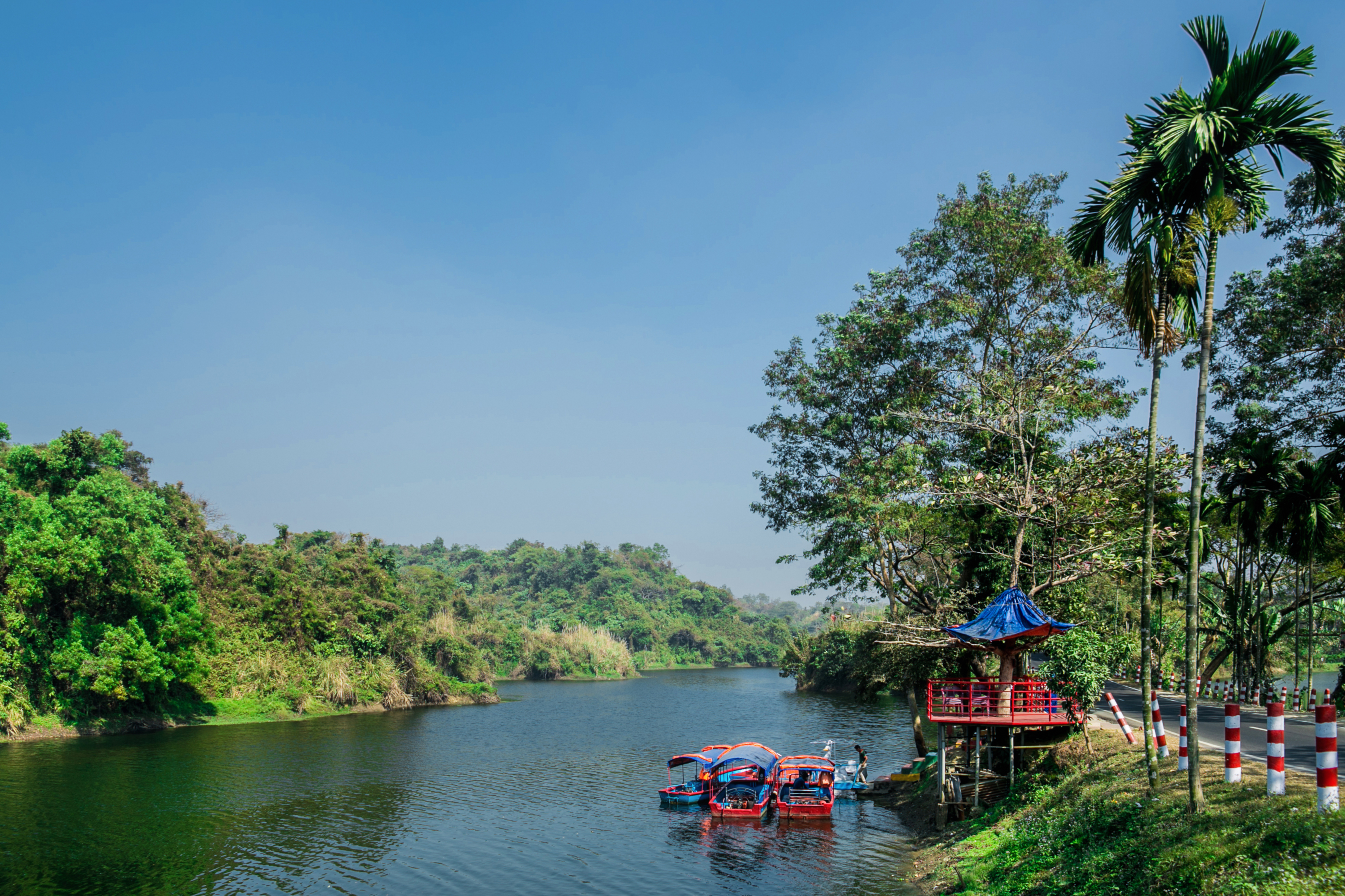 Boat Riding Point (east exposure), Bhatiari Lake, Bhatiari, Chittagong.